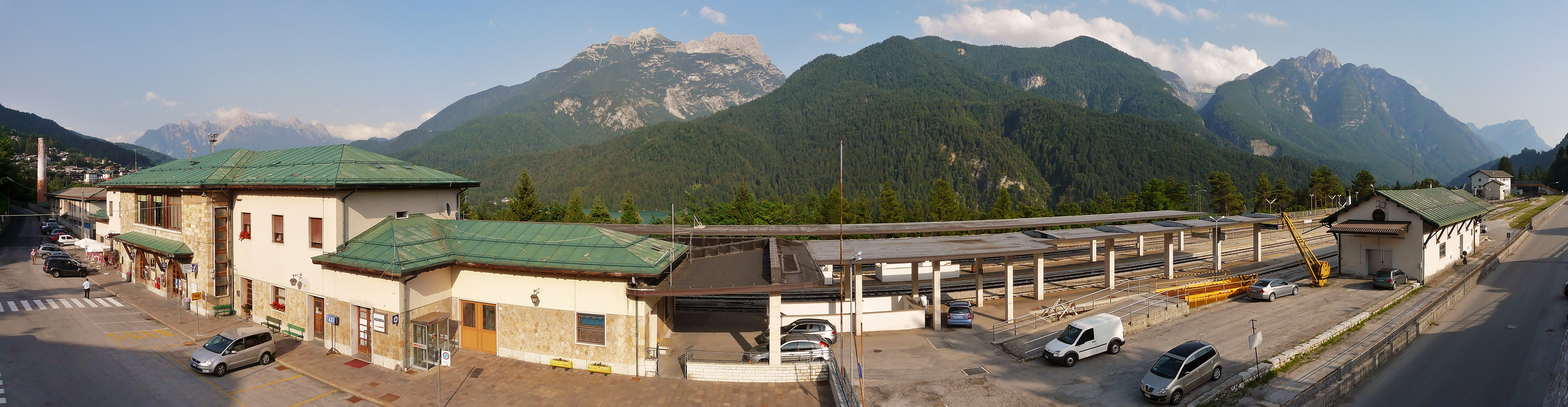 The train station of Calalzo di Cadore in 2009 July.